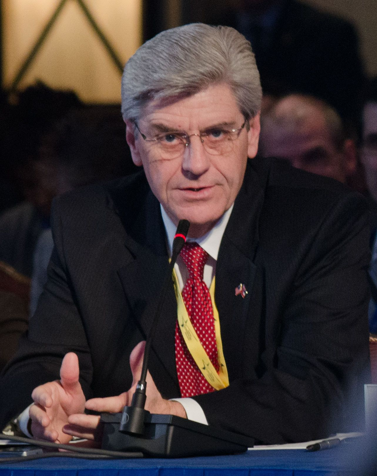 Mississippi - Governor Phil Bryant poses a question to Agriculture Secretary Tom Vilsack who was the guest speaker at the National Governors Association Education, Early Childhood and Workforce Committee meeting in Washington, D.C., on Sunday, February 26, 2012. USDA Photo by Lance.Cheung.